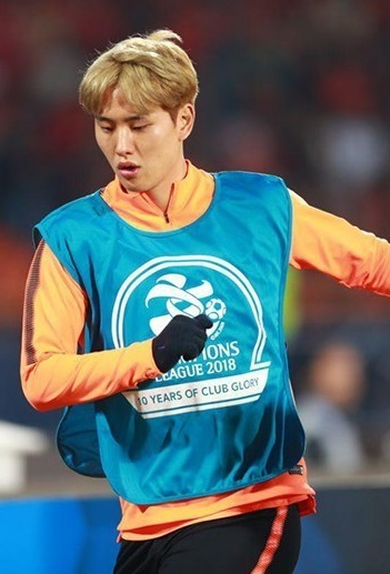 Jung Seung-hyun